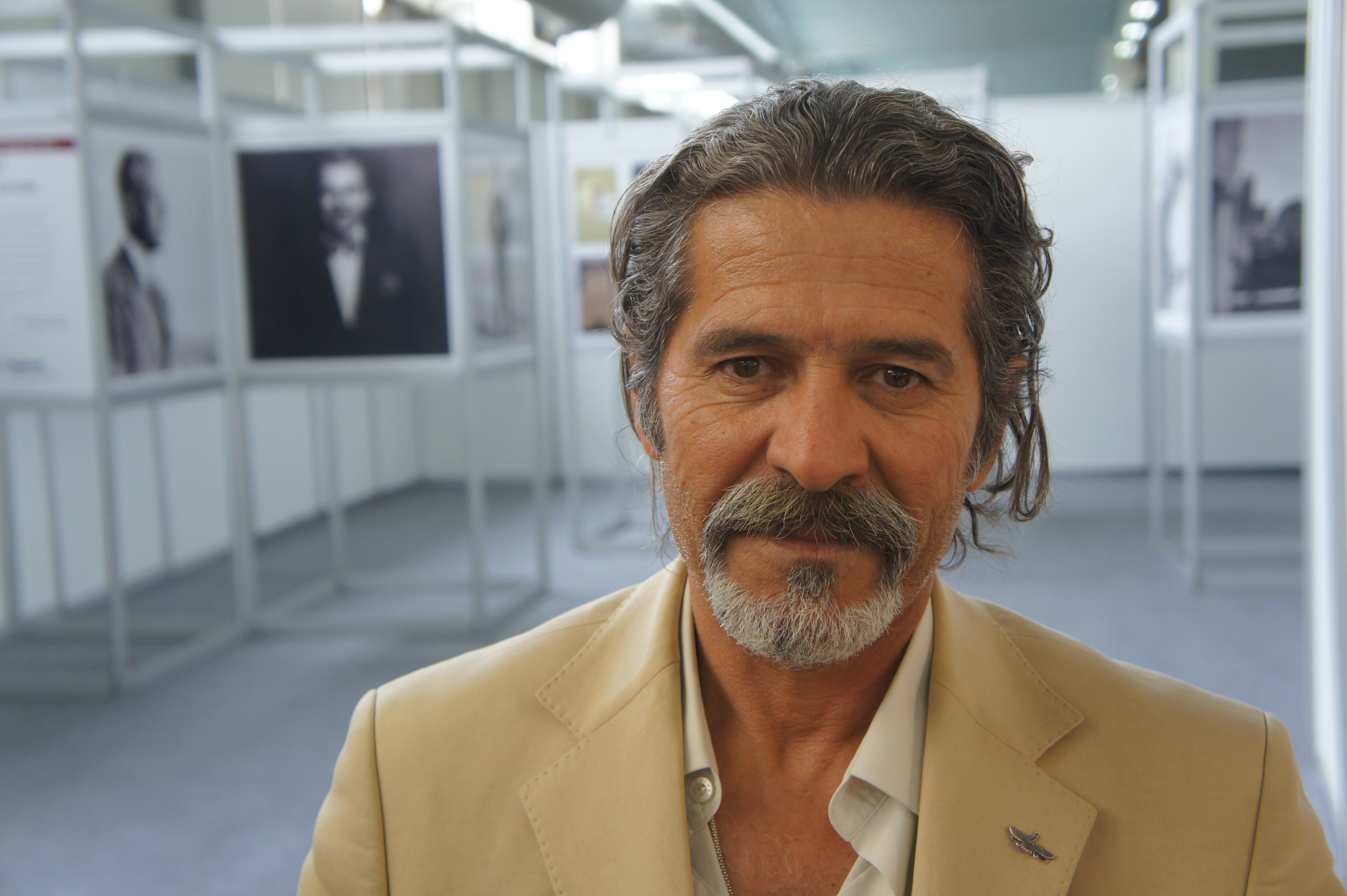 The Kurdish writer and poet Arjen Arî (1956-2012), in Amed/Diyarbakir 2012. Kurdî: Nivîskar û helbestvanê kurd Arjen Arî (1956-2012), di sala 2012'an de li Amedê.